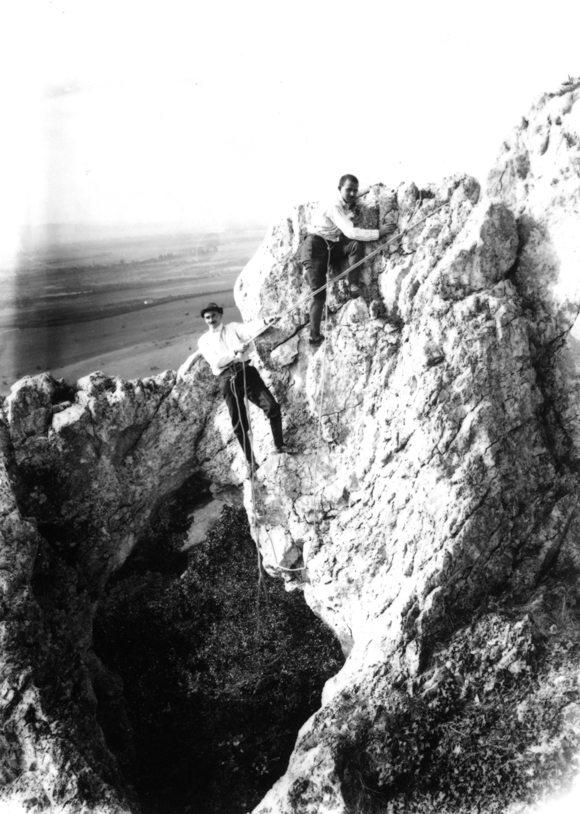 Strázsa-hegy Cave.